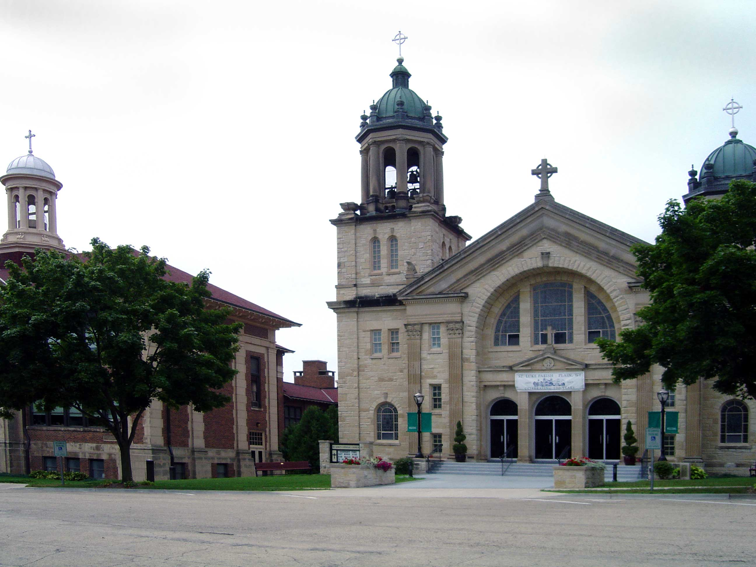 St. Luke's Catholic Church and school in Plain, Wisconsin. The church is located on Nachreiner Ave. between Oak St. and Cherry St.